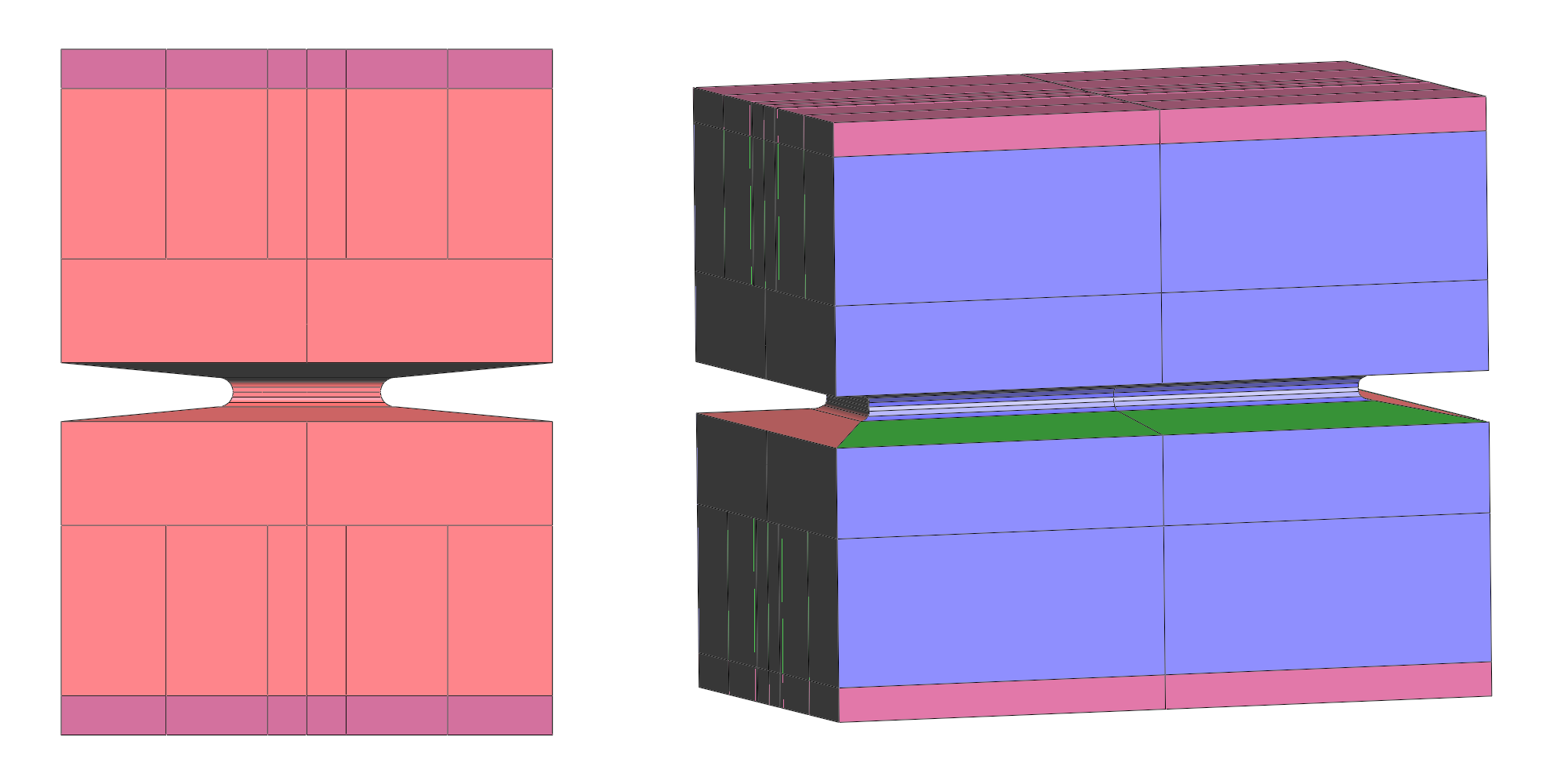 The basic Geometry oc the Concrete Hinge with front notch